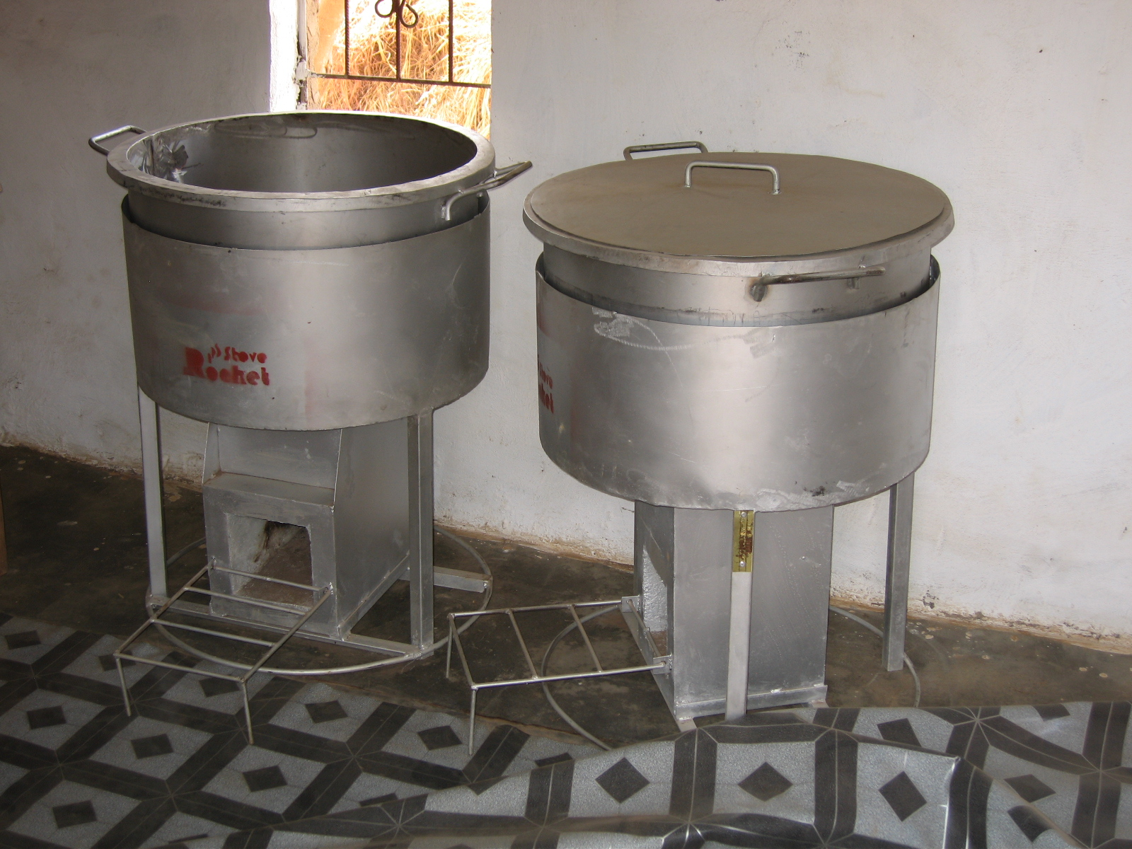 Small manufactured rocket cooking stoves in use in Njewa Malawi